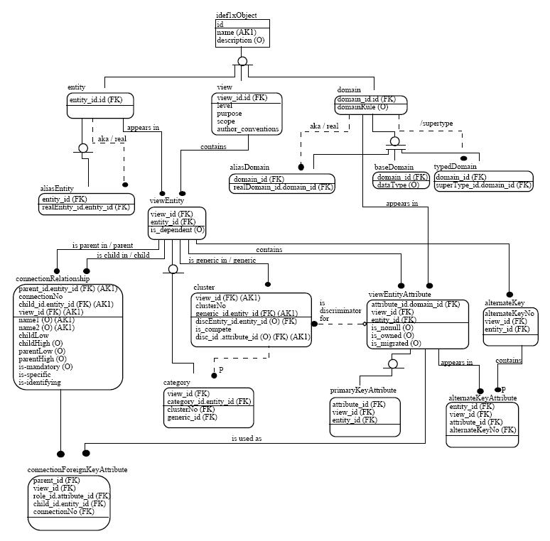 Figure B.5.1 IDEF1X Diagram